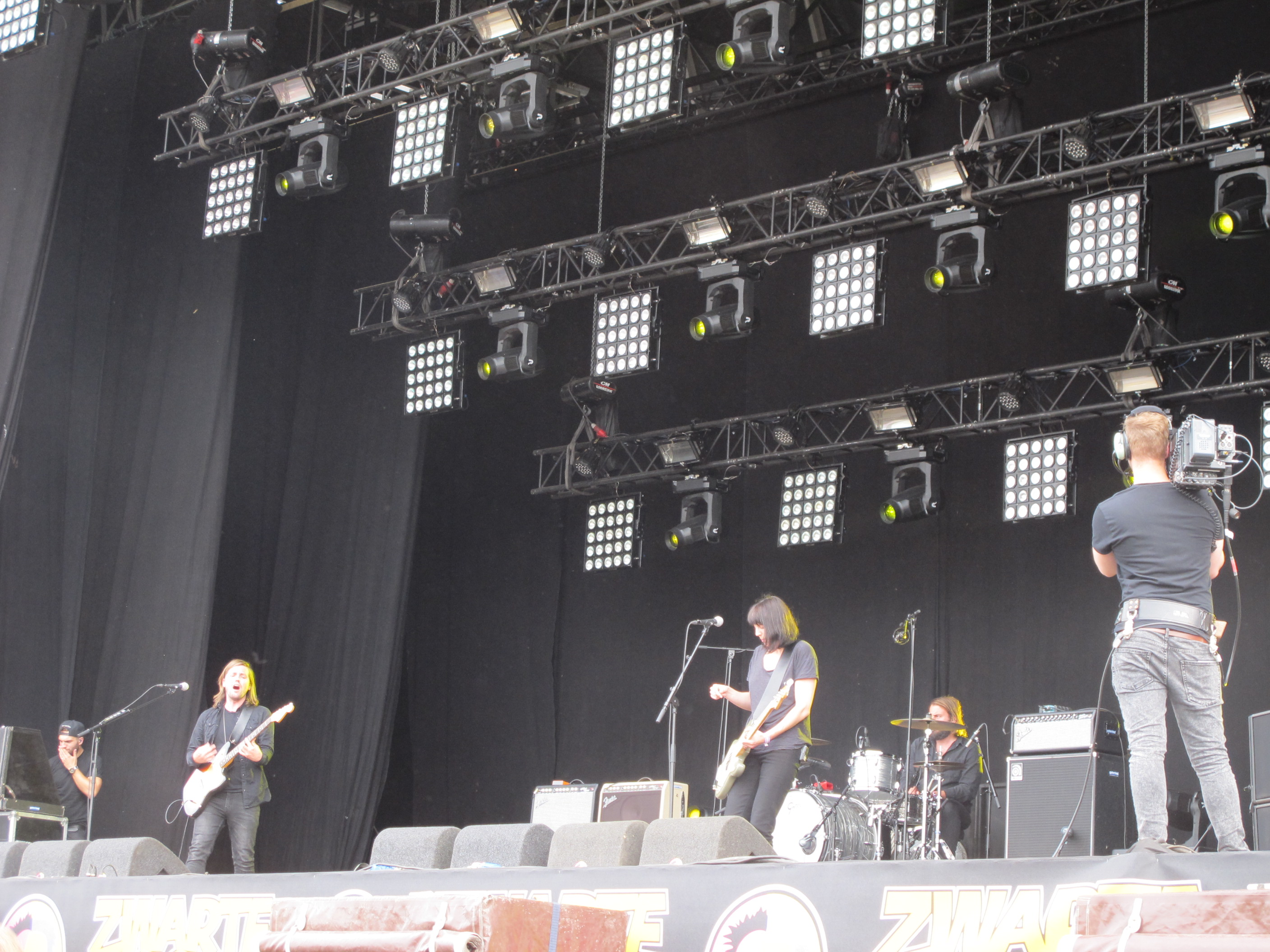 Band of Skulls performing